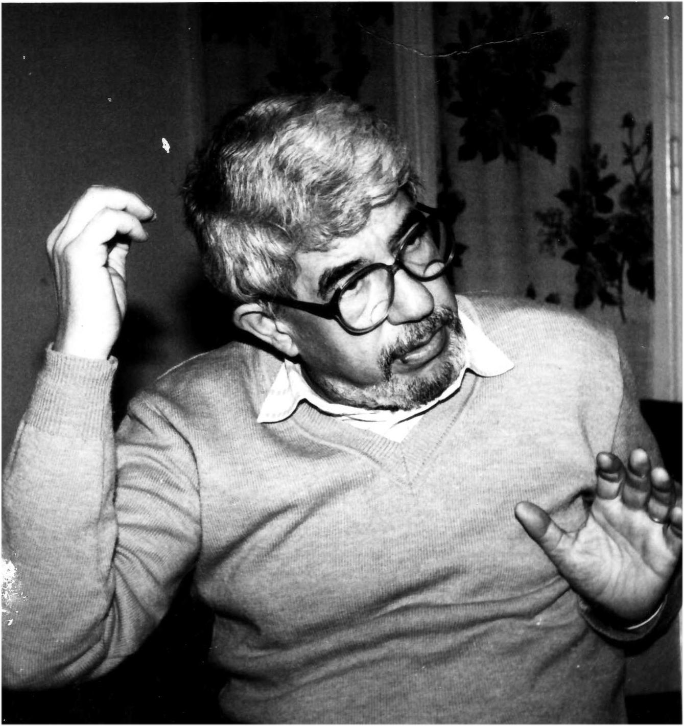 Péter Buchwald (1937–) Chemical Engineer, Senator (DAHR, 1992-1996) (Romania)